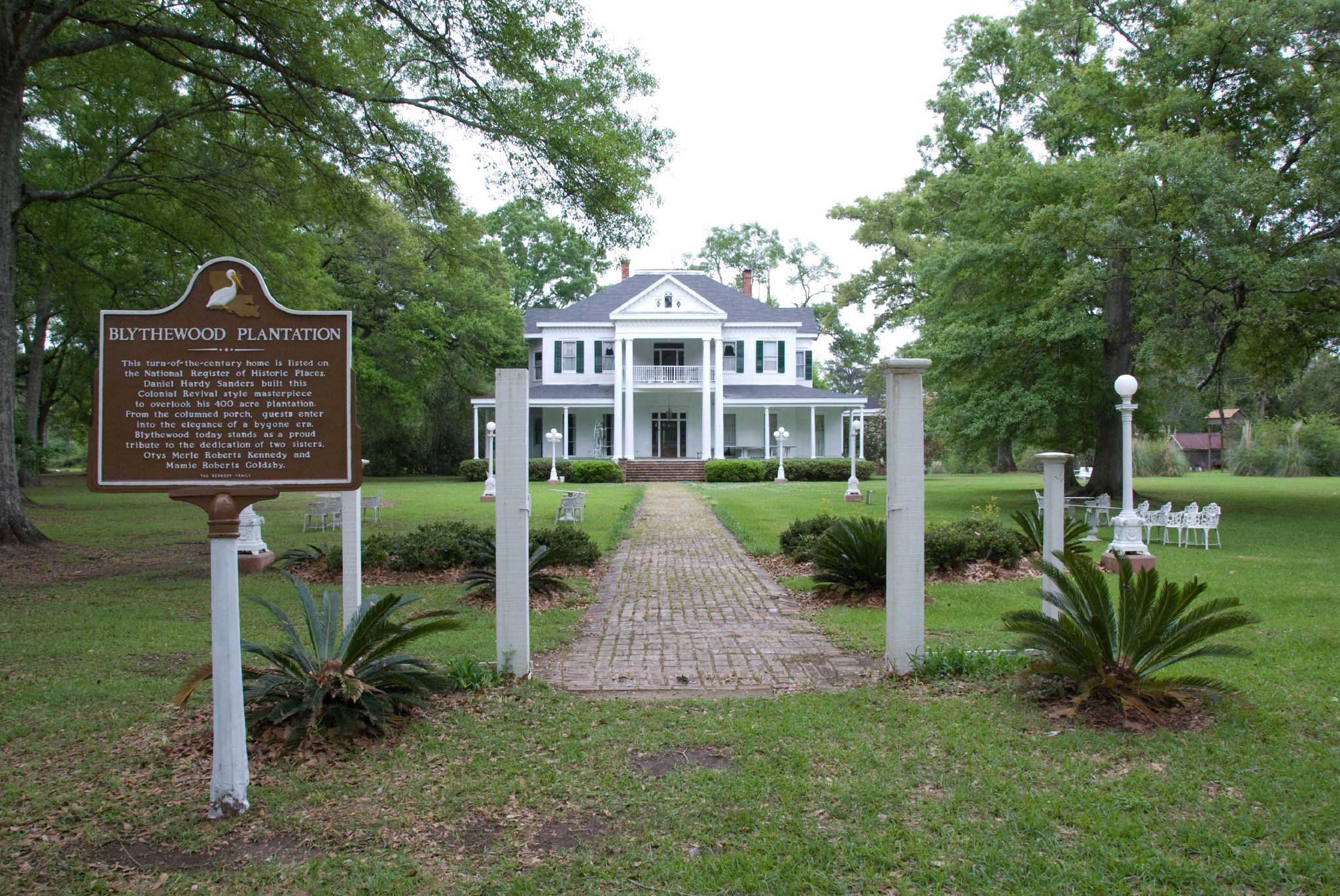 Blythewood Plantation House, Amite Louisina